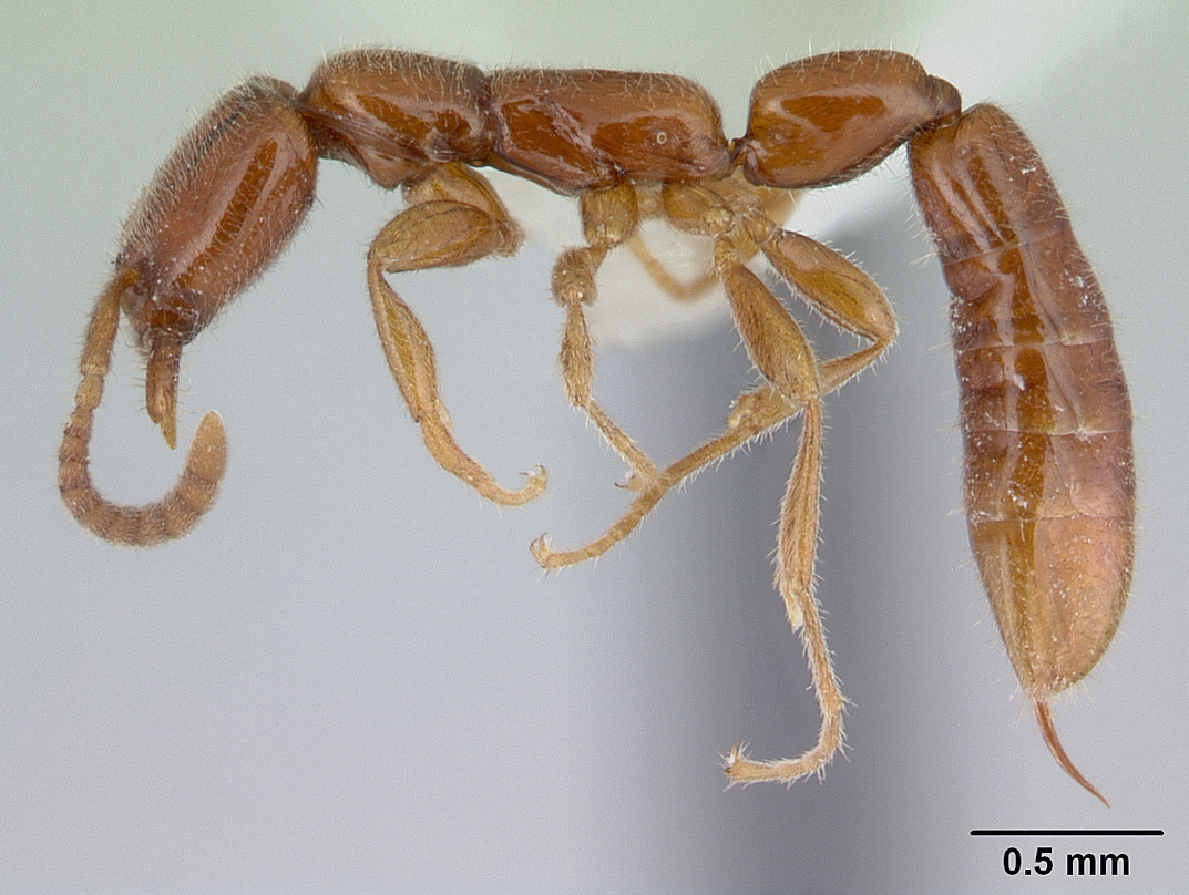 Profile view of ant Opamyrma hungvuong specimen casent0178347.